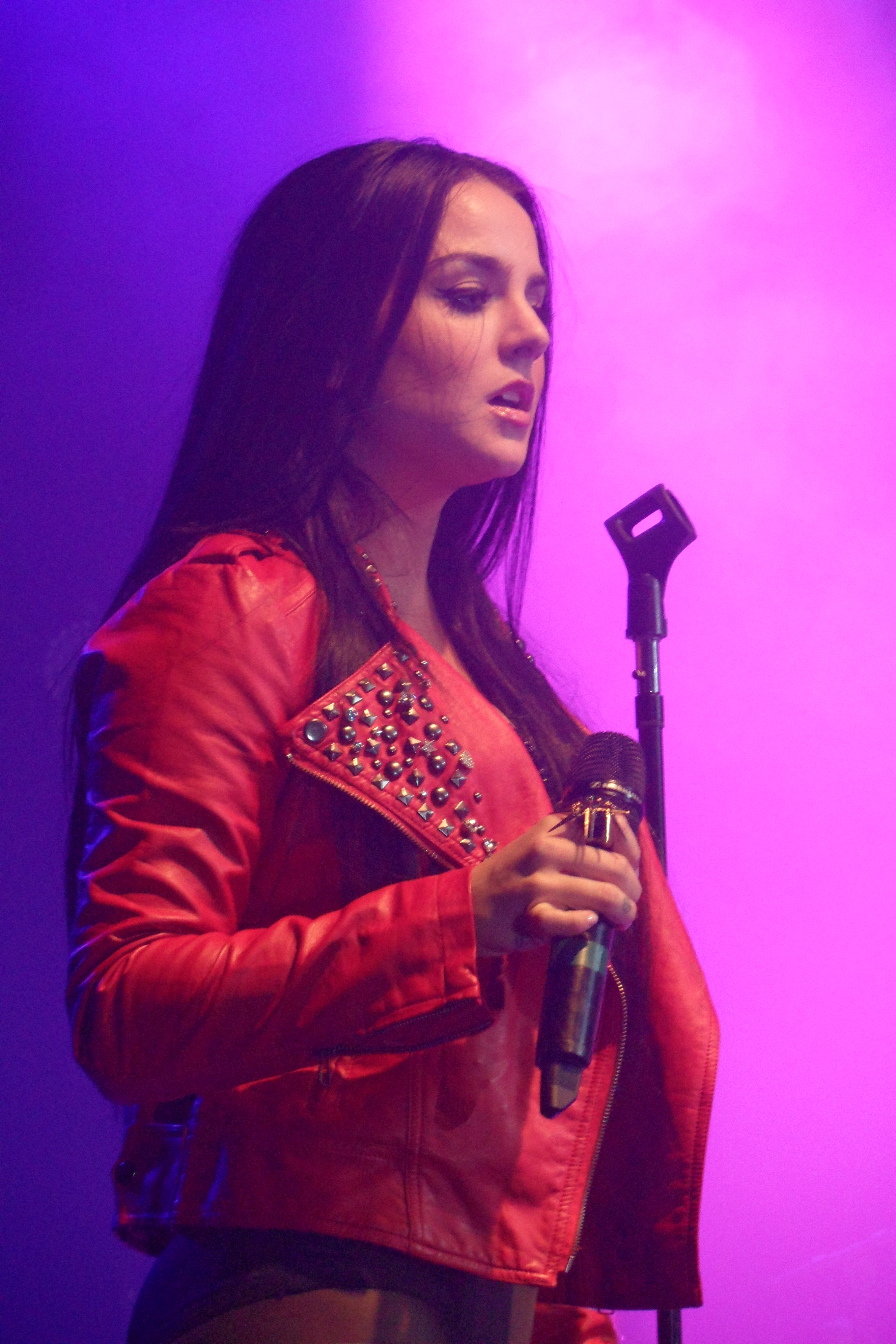 Joanna Levesque, better known as JoJo performing on the Joe Jonas & Jay Sean Tour as the opening act 2011